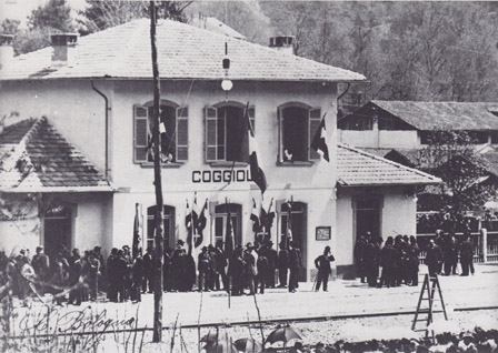 Coggiola, railway station, 1908-05-10